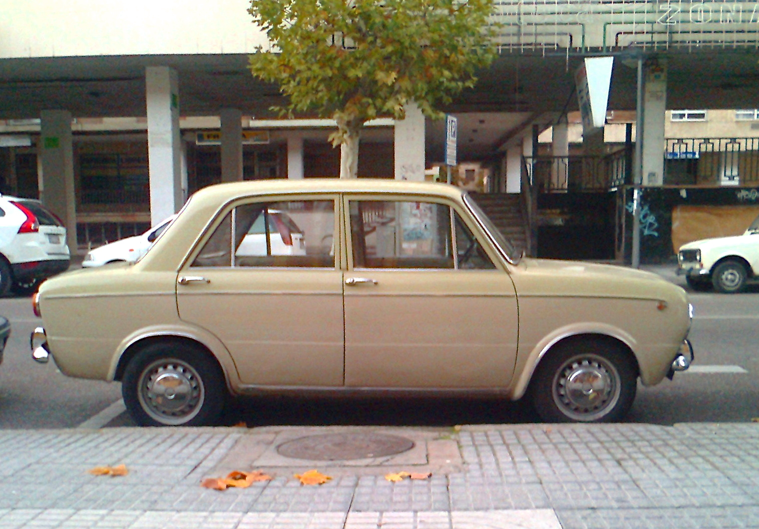 Seat 850 4 doors in Zamora (Spain, 2012)